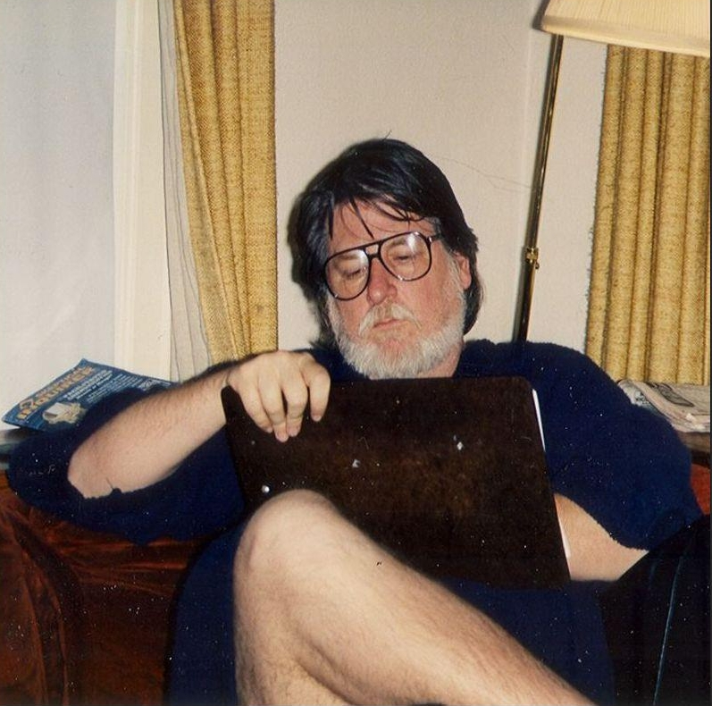 John Varley doing the crossword